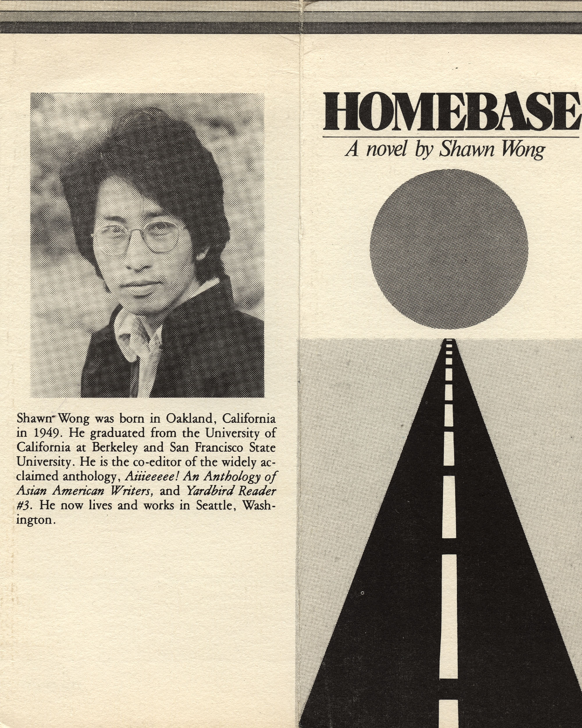 Shawn Wong Homebase brochure, 1979. Published by I. Reed Books, Berkeley, California